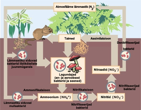 Nitrogen cycle, translated into Estonian.